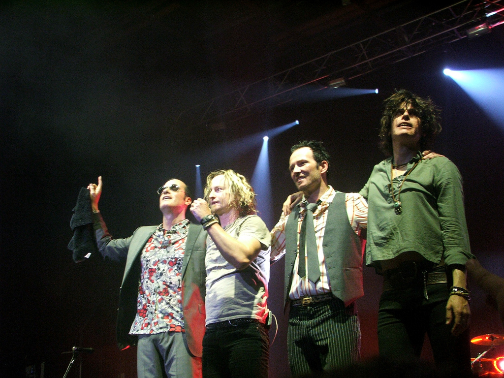 Stone Temple Pilots lined up on stage.